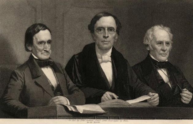 Steel engraving of Jeremiah Day, Theodore Dwight Woolsey and Benjamin Silliman of Yale College at Commencement Day, 1860. Image courtesy of the Yale University Manuscripts & Archives Digital Images Database. Retouched by MarmadukePercy.